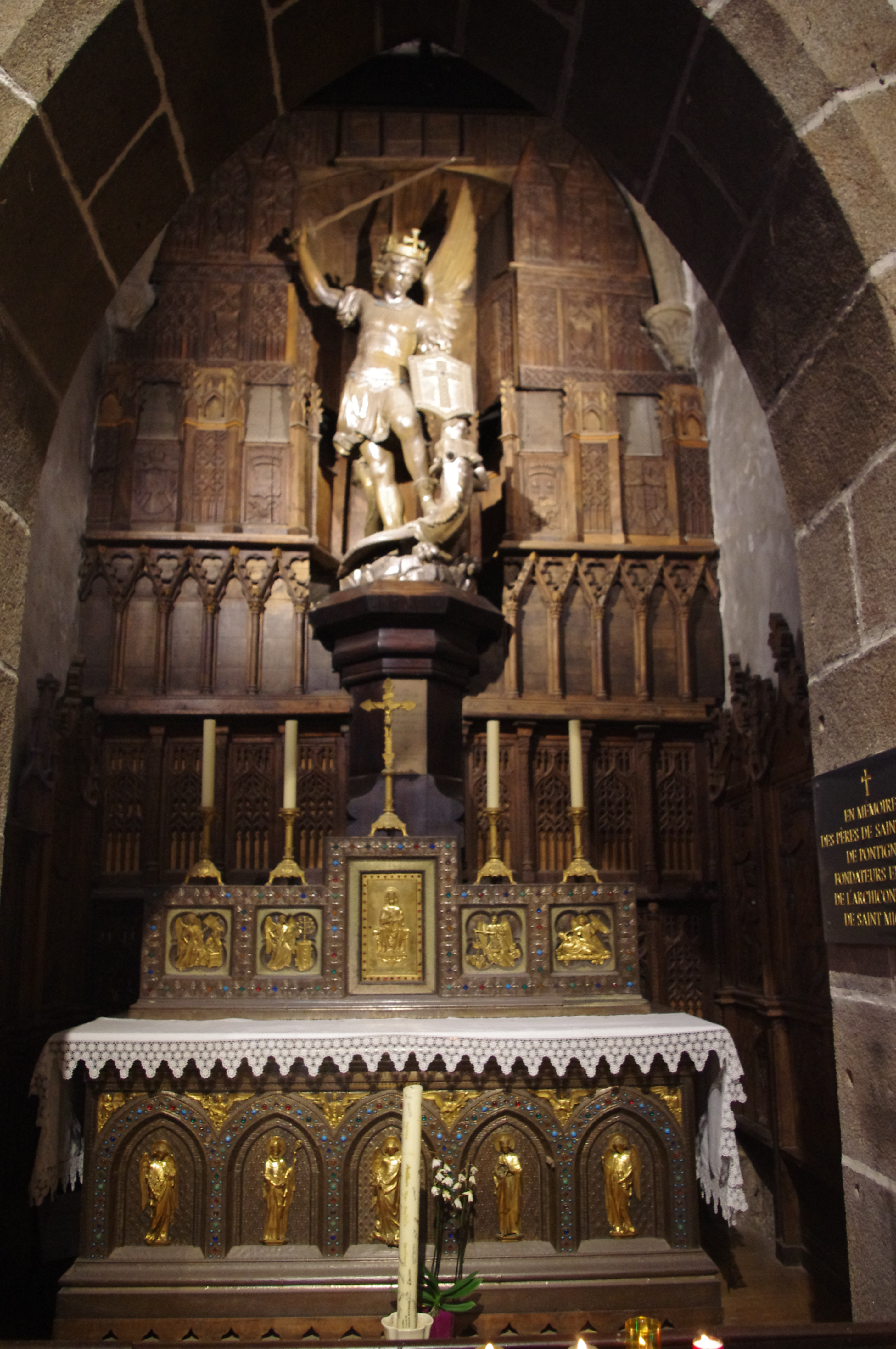 The church Saint-Pierre of Mont Saint-Michel, France